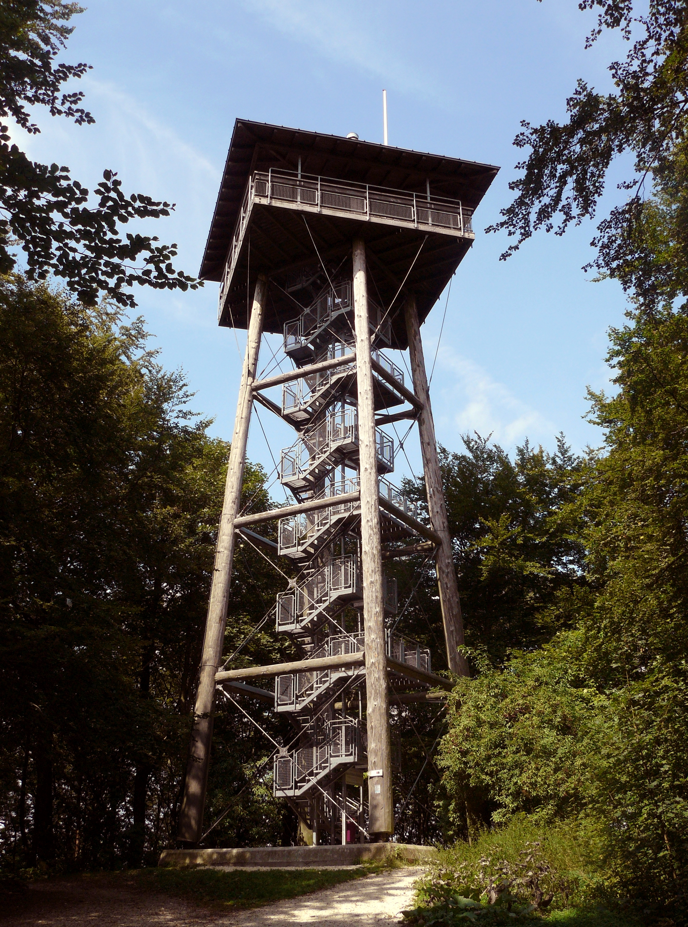 lookout tower called „Aalbäumle“ near Aalen